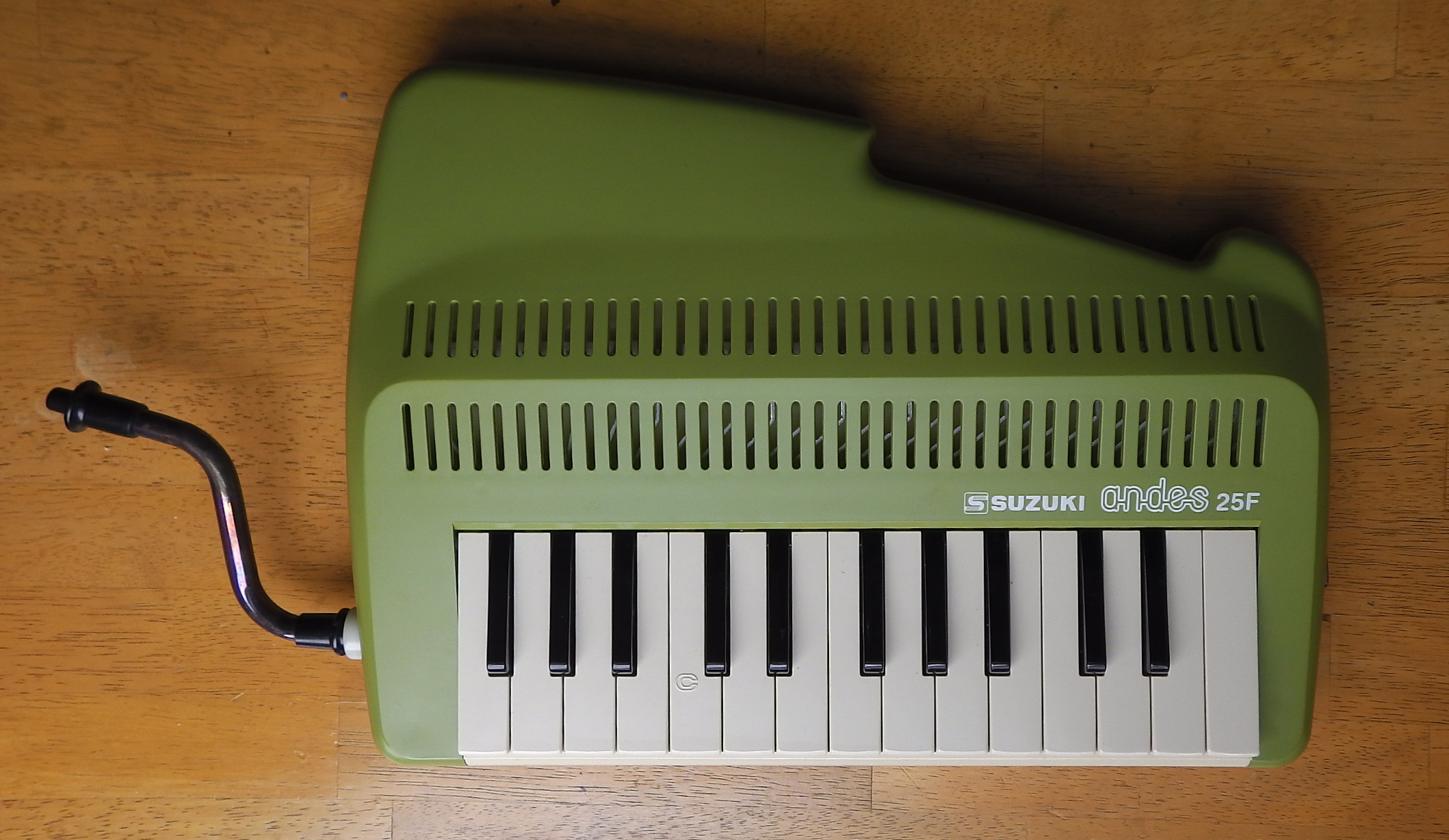 This is my musical instrument, Suzuki Andes 25 F.